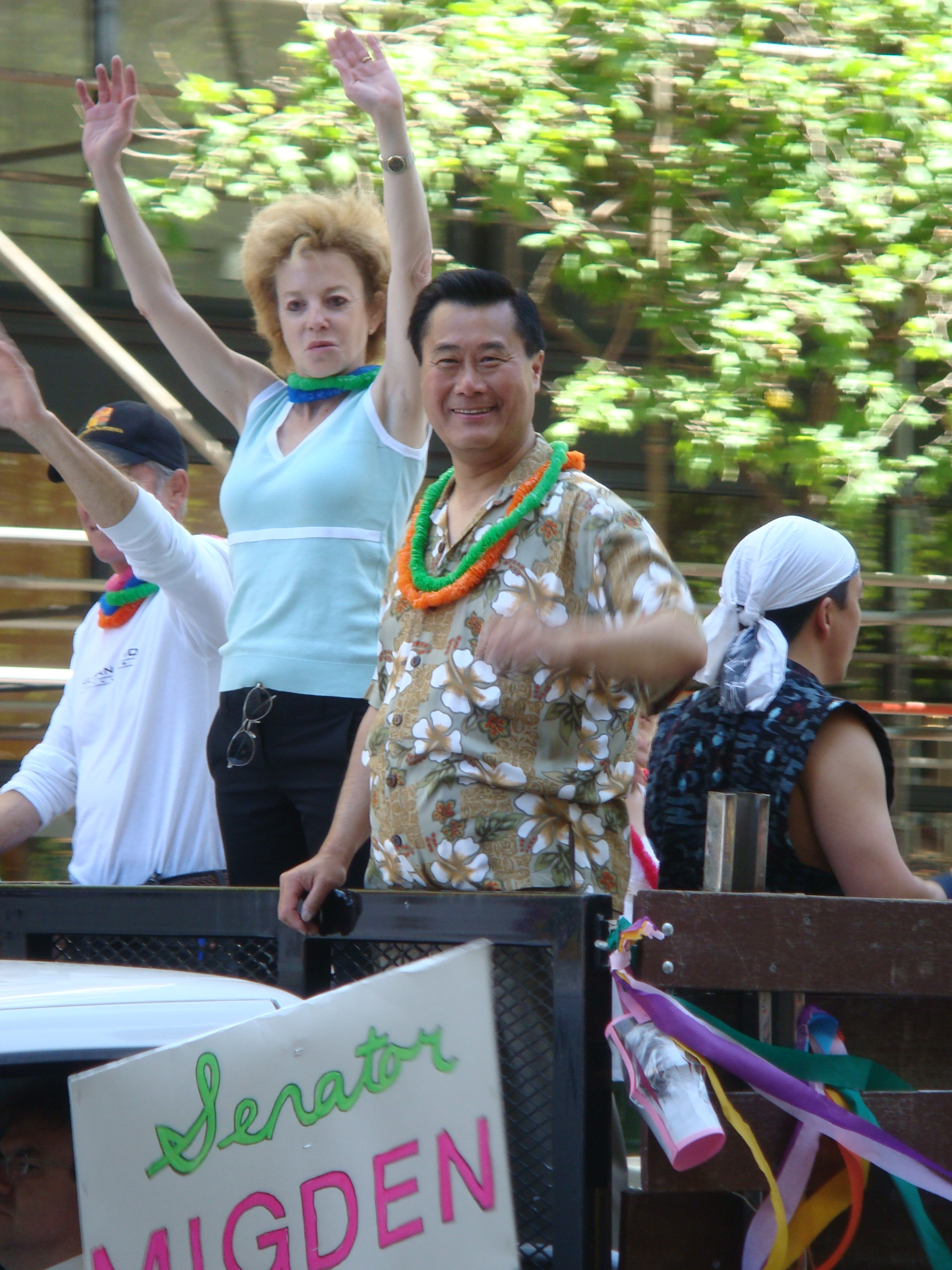 Senator Carol Migden at the 2007 Gay Pride Festival